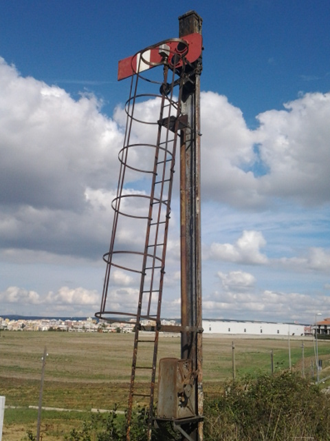 italian railway signal